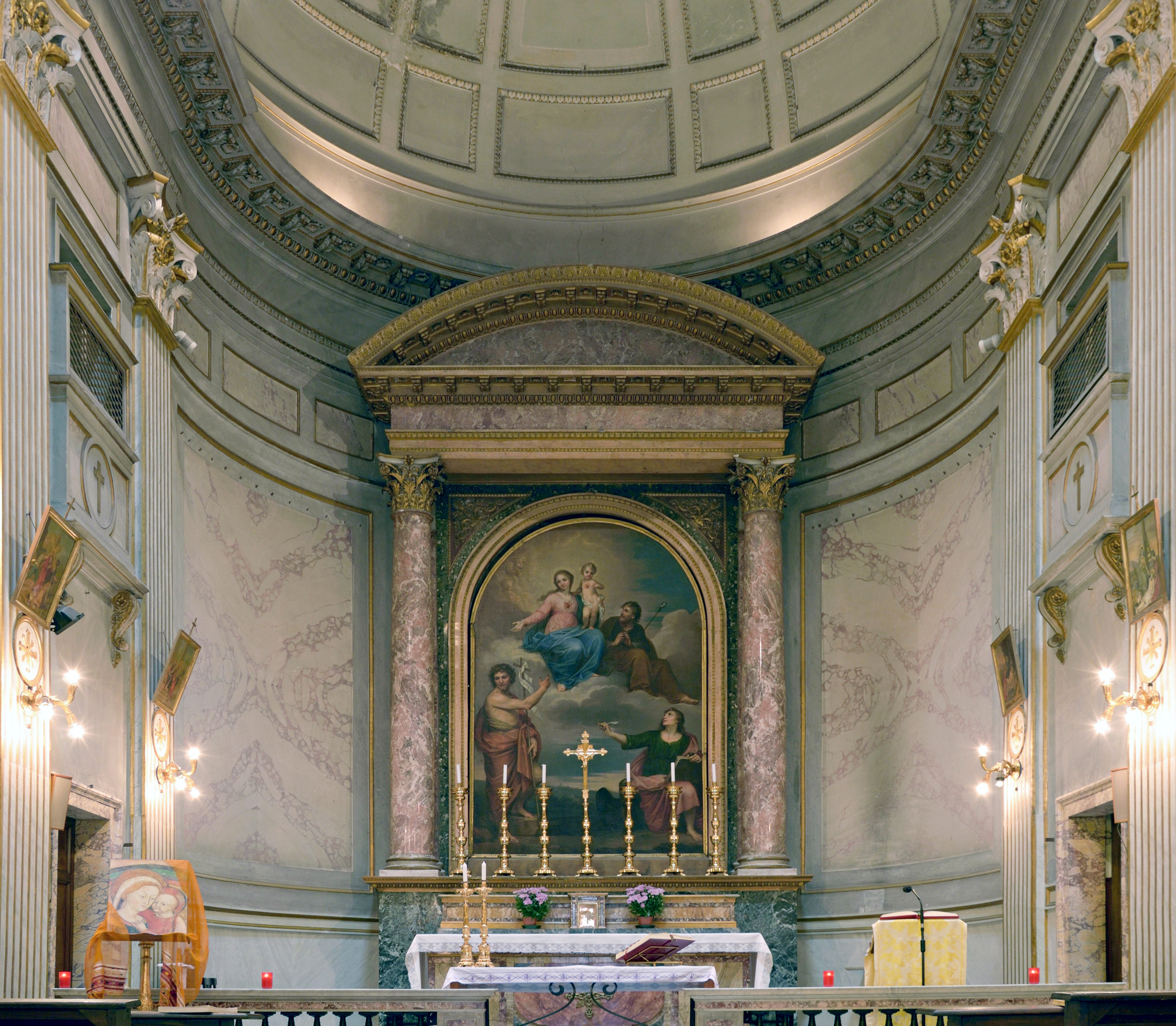 Intern of Church of St. John of the Malva in Trastevere